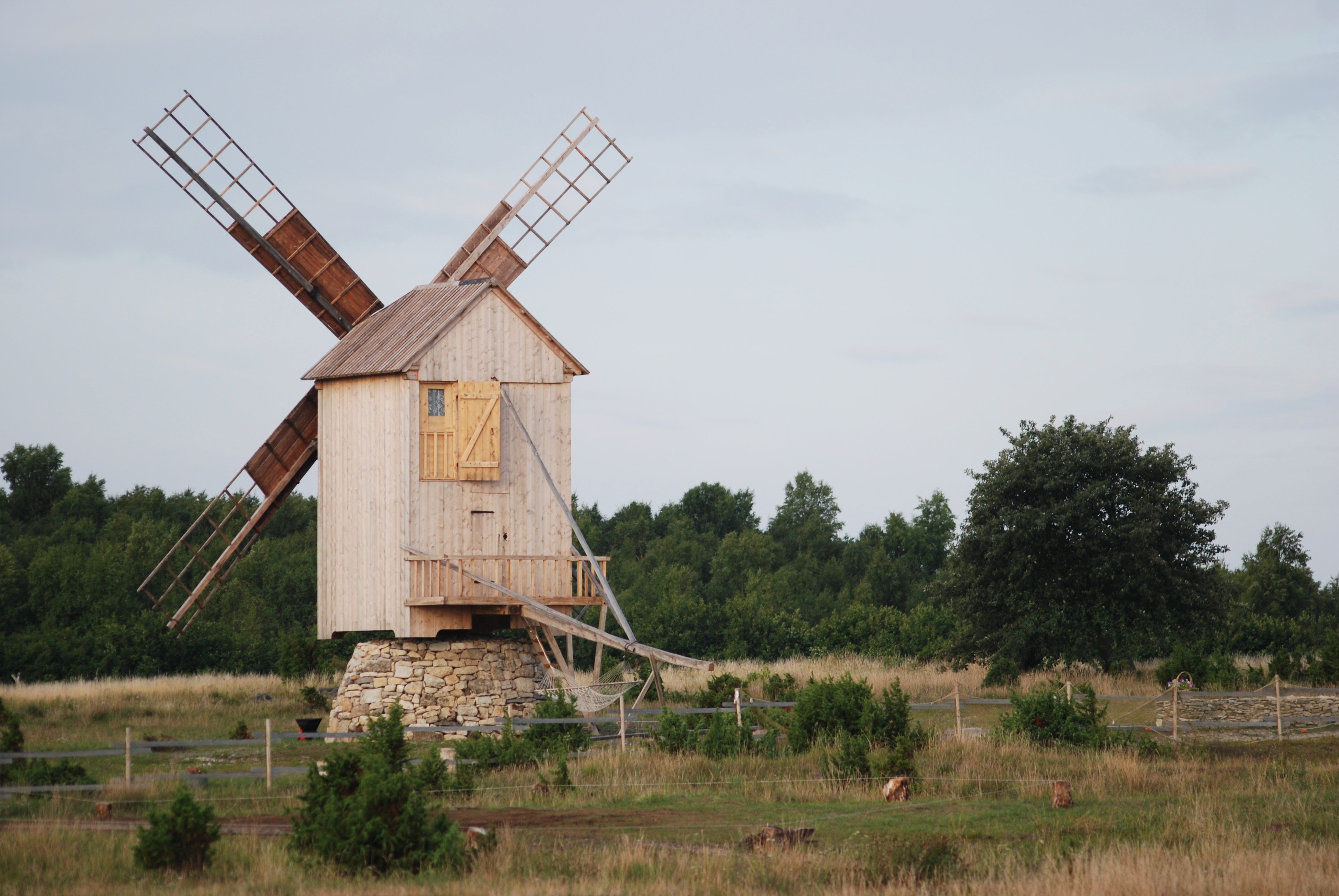 Ohessaare, Saare County, Estonia